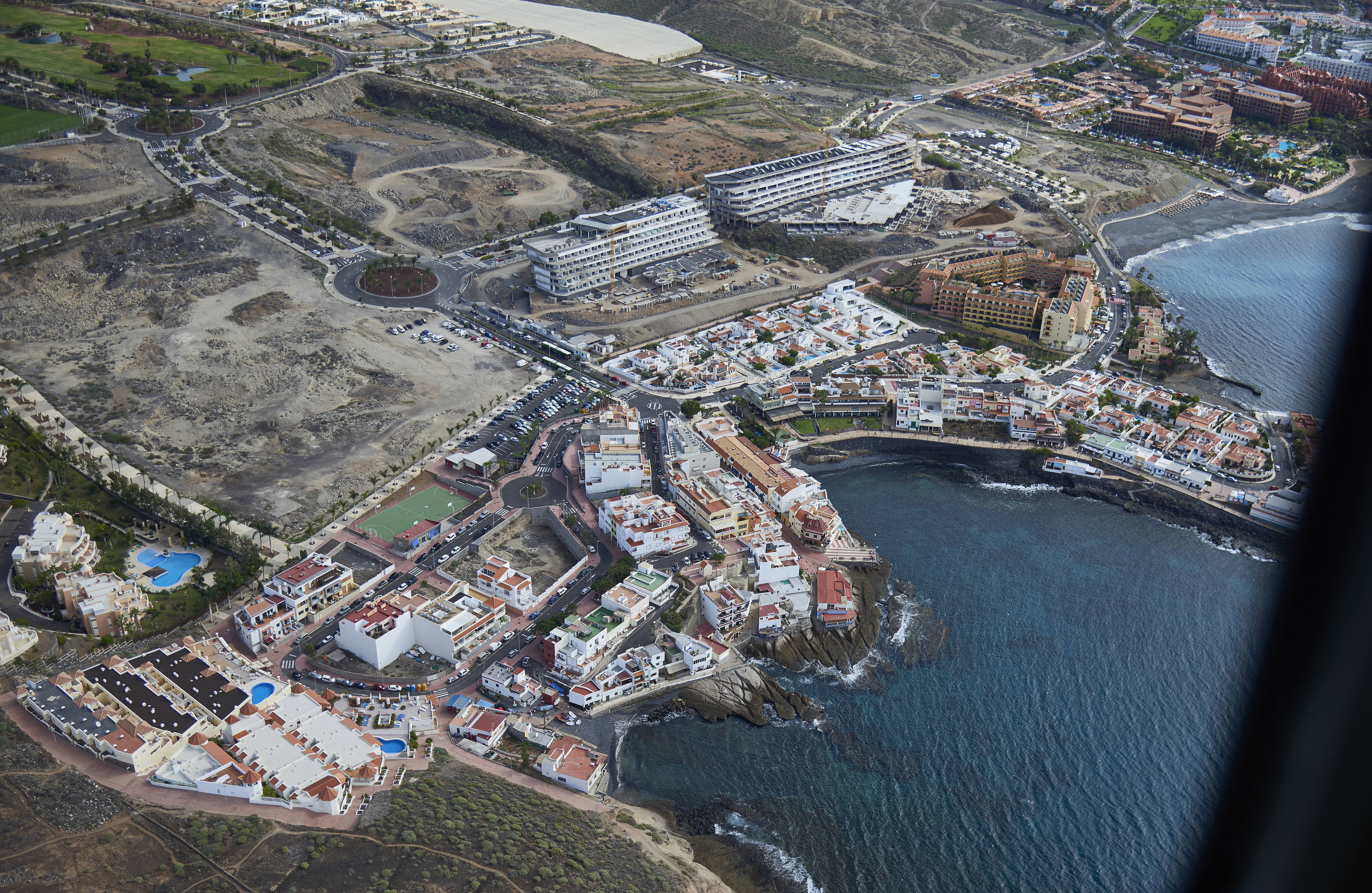 La Caleta (Adeje) in Tenerife aerial view